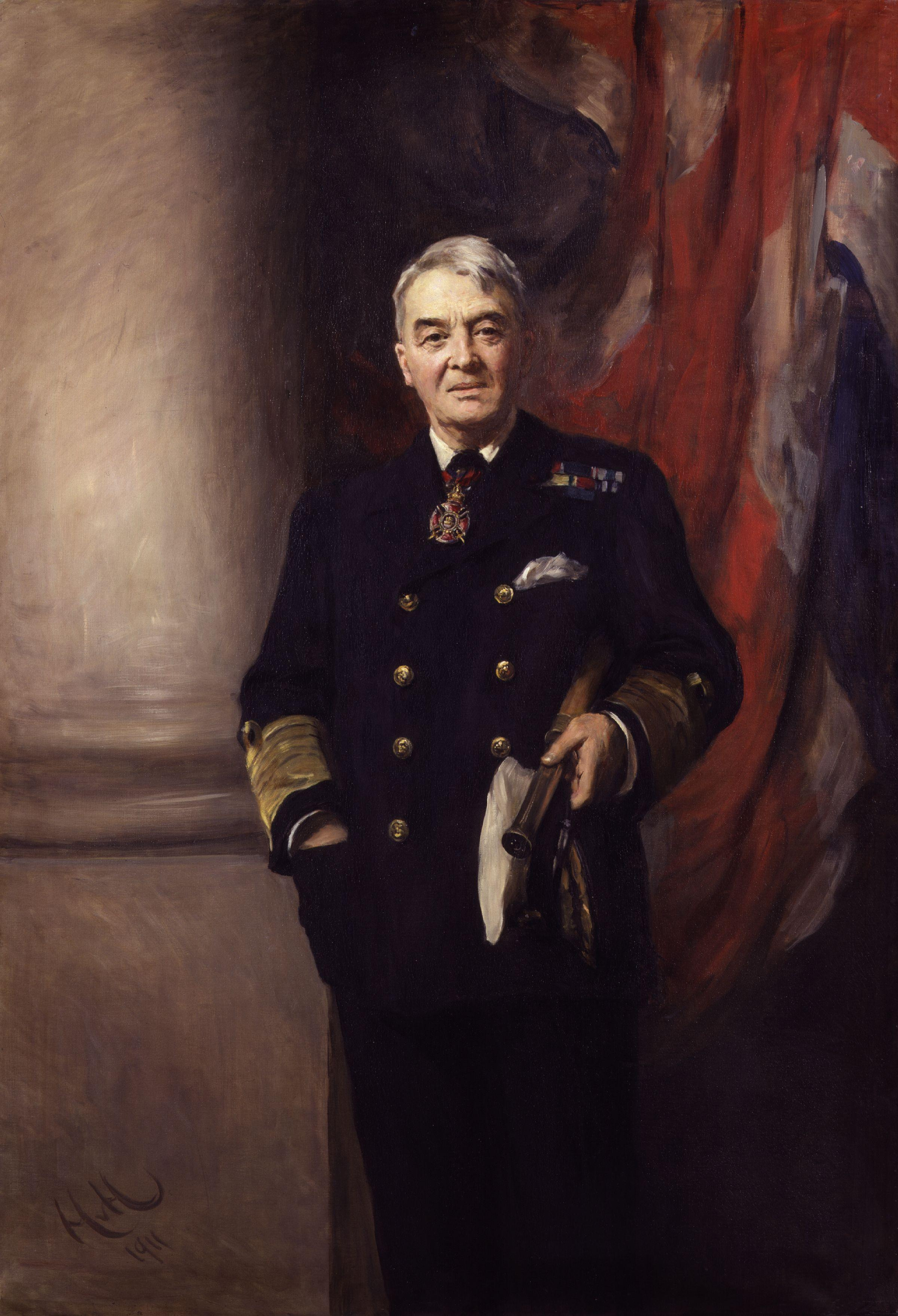 John Arbuthnot Fisher, 1st Baron Fisher, by Sir Hubert von Herkomer (died 1914), given to the National Portrait Gallery, London in 1936. All images in this batch have been confirmed as author died before 1939 according to the official death date listed by the NPG.